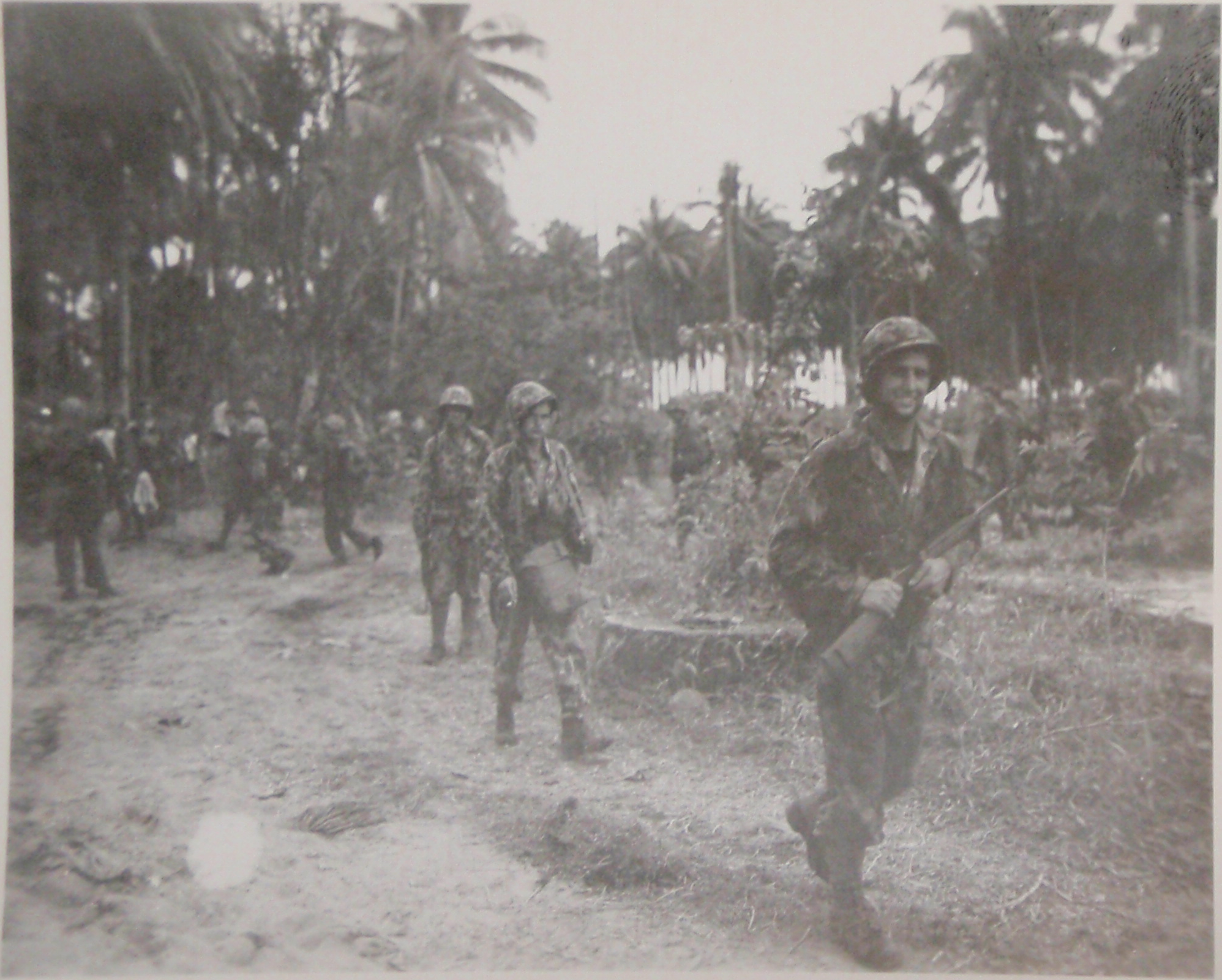 Original Caption: "Members of the 1st. Battalion, 3rd. Marines coming out of the jungle from the front lines. They were the first to hit the beach at Torokina Point, where the strongest opposition was met."